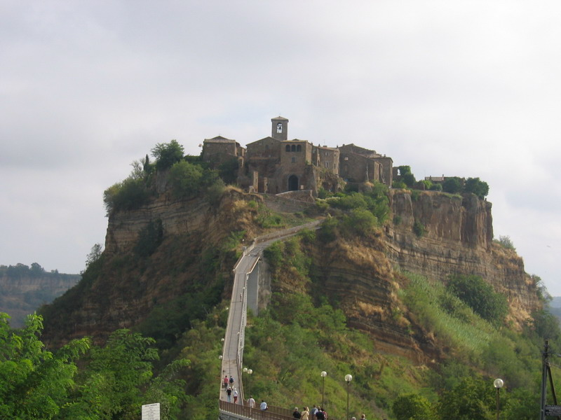 Civita di Bagnoregio: This was once the main Etruscan road leading to the Tiber Valley and Rome.